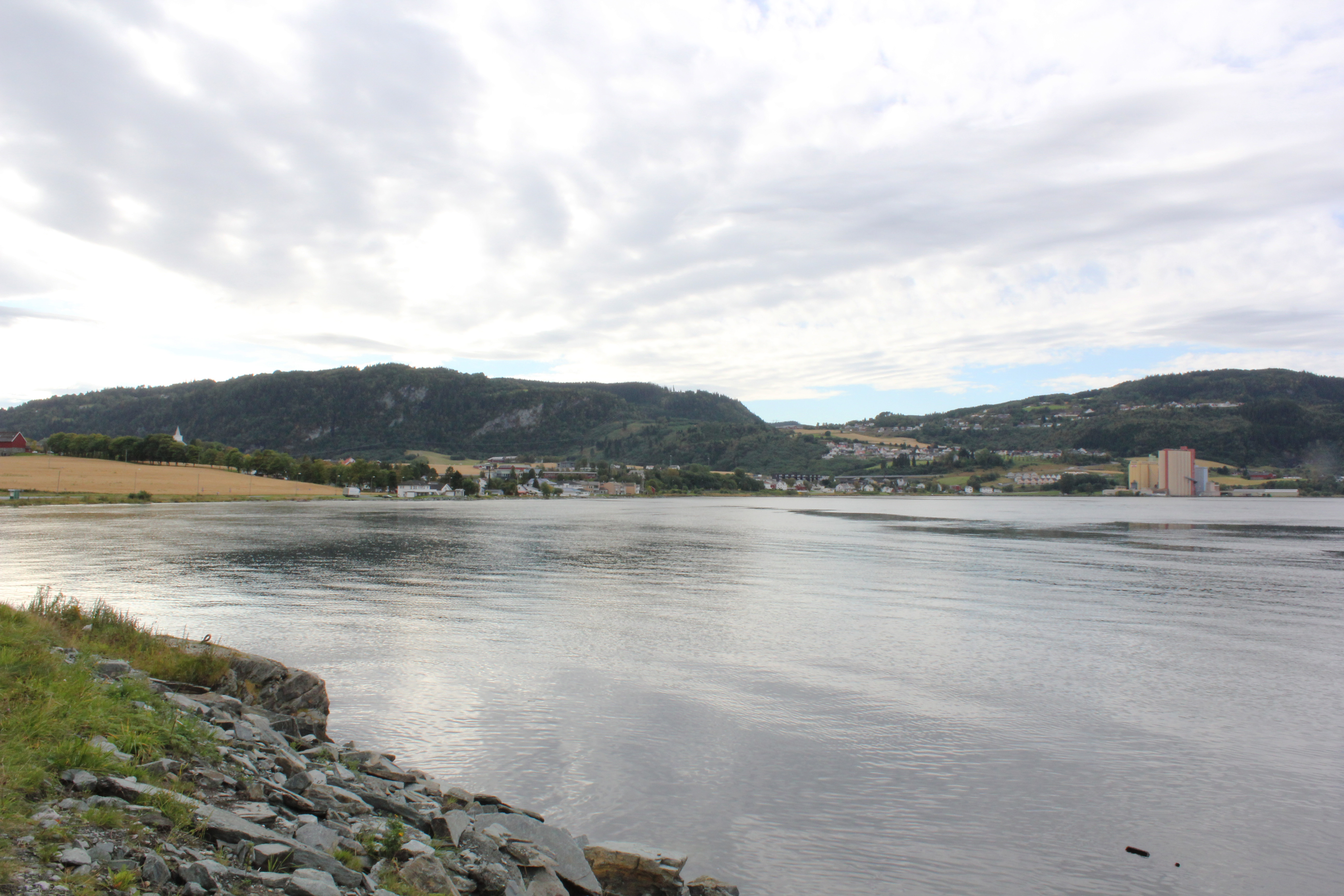 Buvika, a former municipality SW of Trondheim, Norway